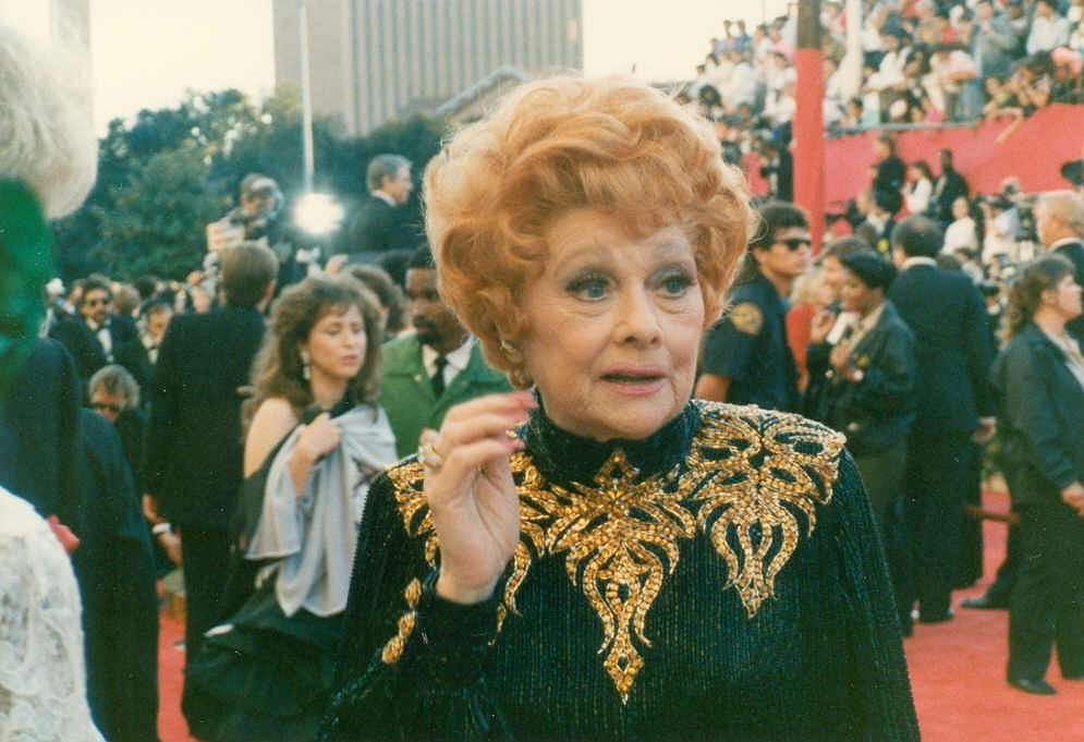 Photo taken at 61st Academy Awards 3/29/89 at Lucy's last public appearance. She died 4/26/89